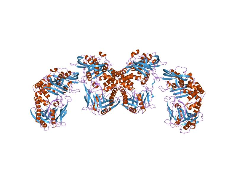 Cartoon representation of the molecular structure of protein registered with 1xhz code.